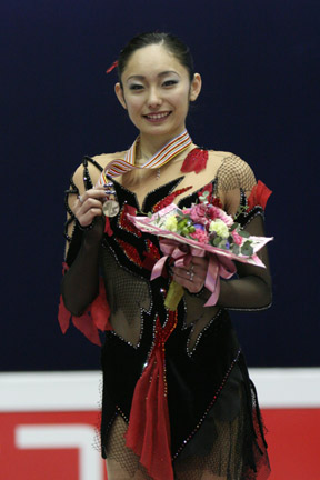 Miki Ando during the ladies medals ceremony at the 2008 Four Continents Figure Skating Championships. She won the bronze medal at this competition.